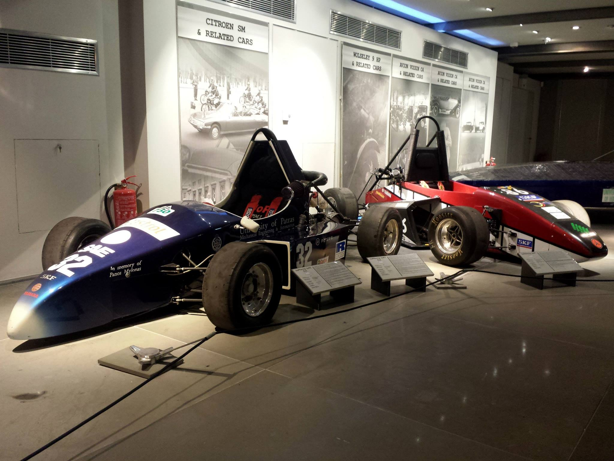 UoP1 (on the left) and UoP3Evo (on the right) exhibited at the Hellenic Motor Museum